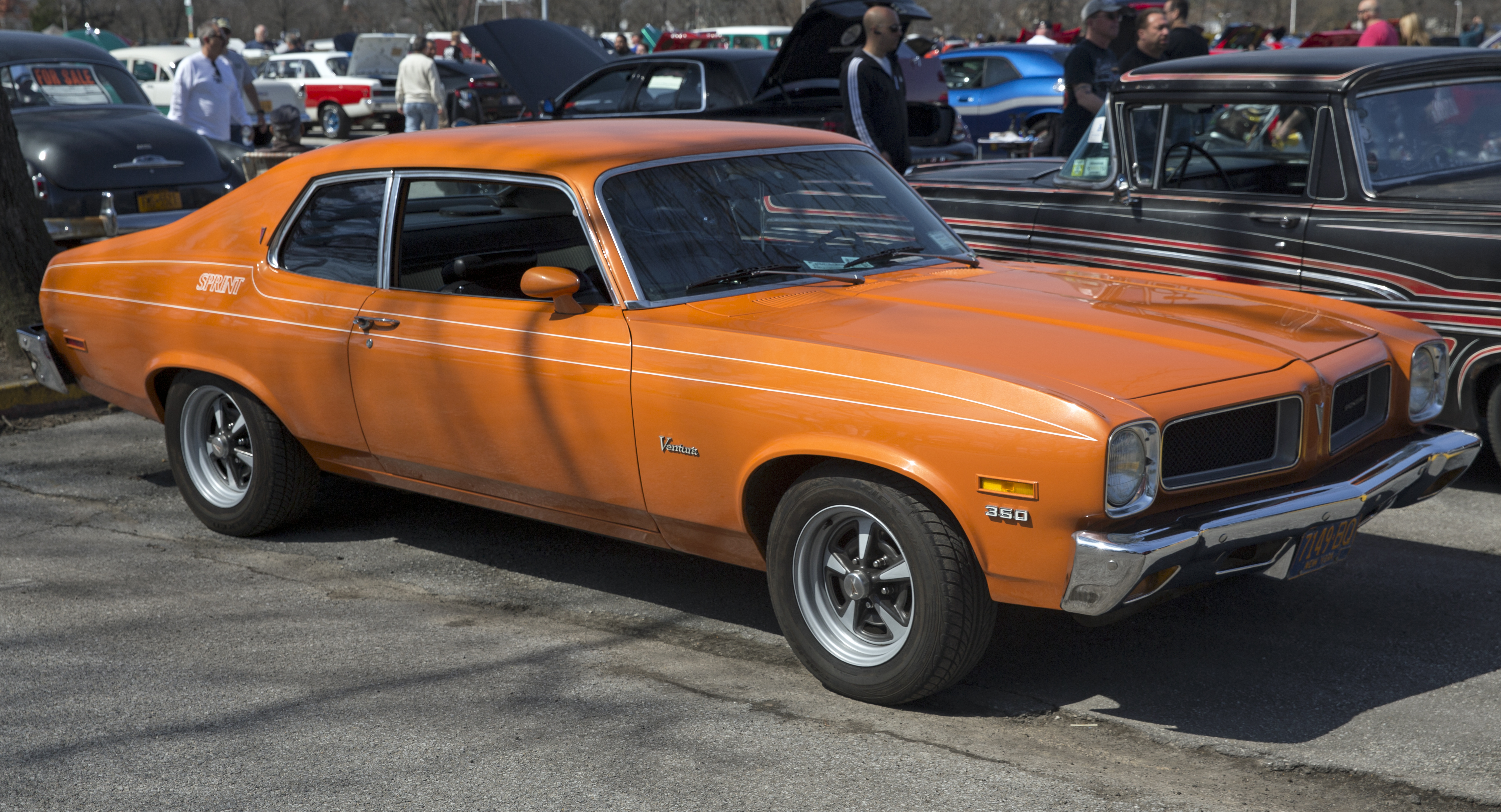 A 1973 Pontiac Ventura Sprint 2-door Coupe at the Belmont Race Track. Built at Willow Run, MI, this one has a two-barrel 350 V8 with a single exhaust.